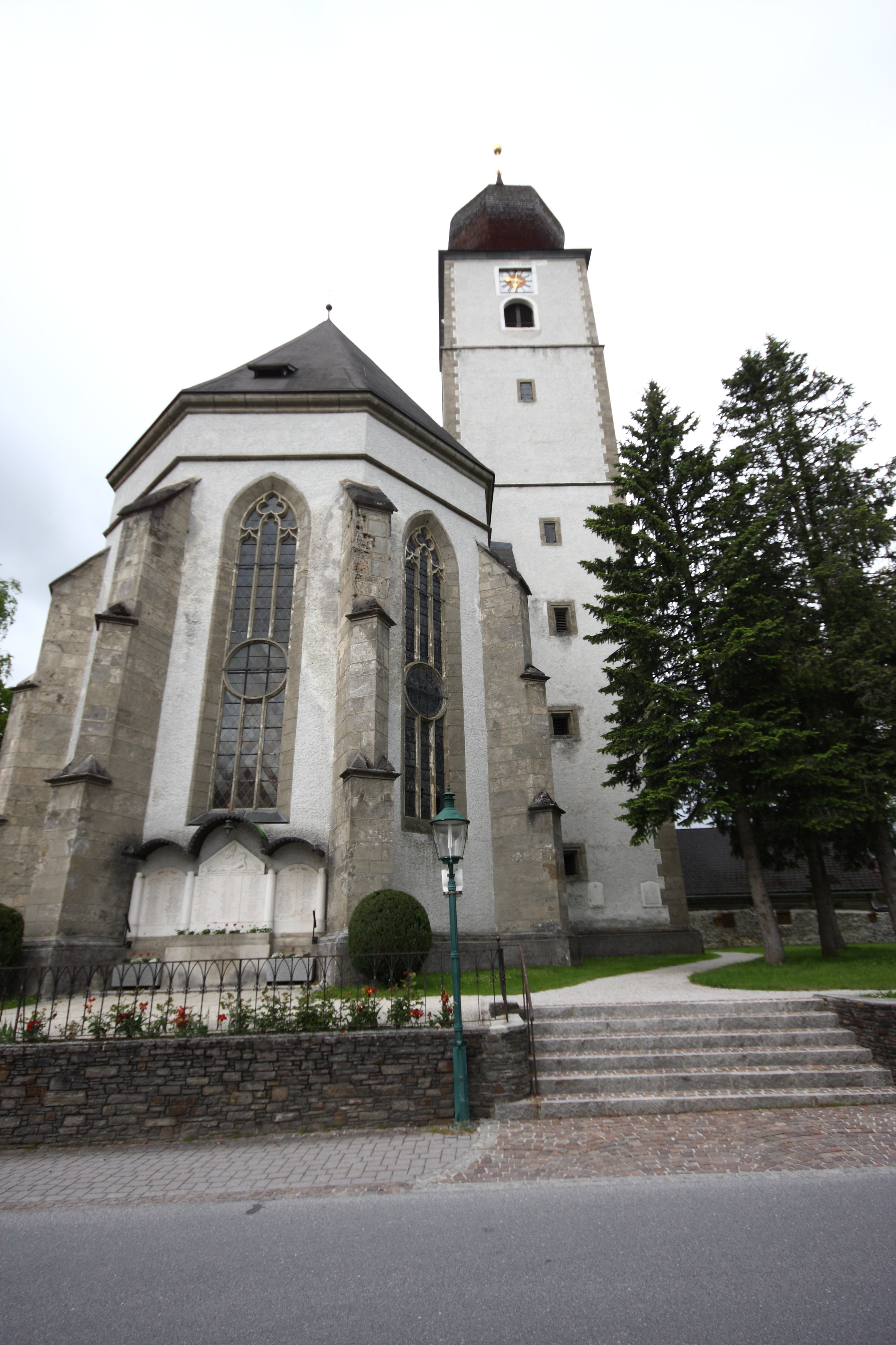 Church Mariä Himmelfahrt, Gröbming, Styria, Austria